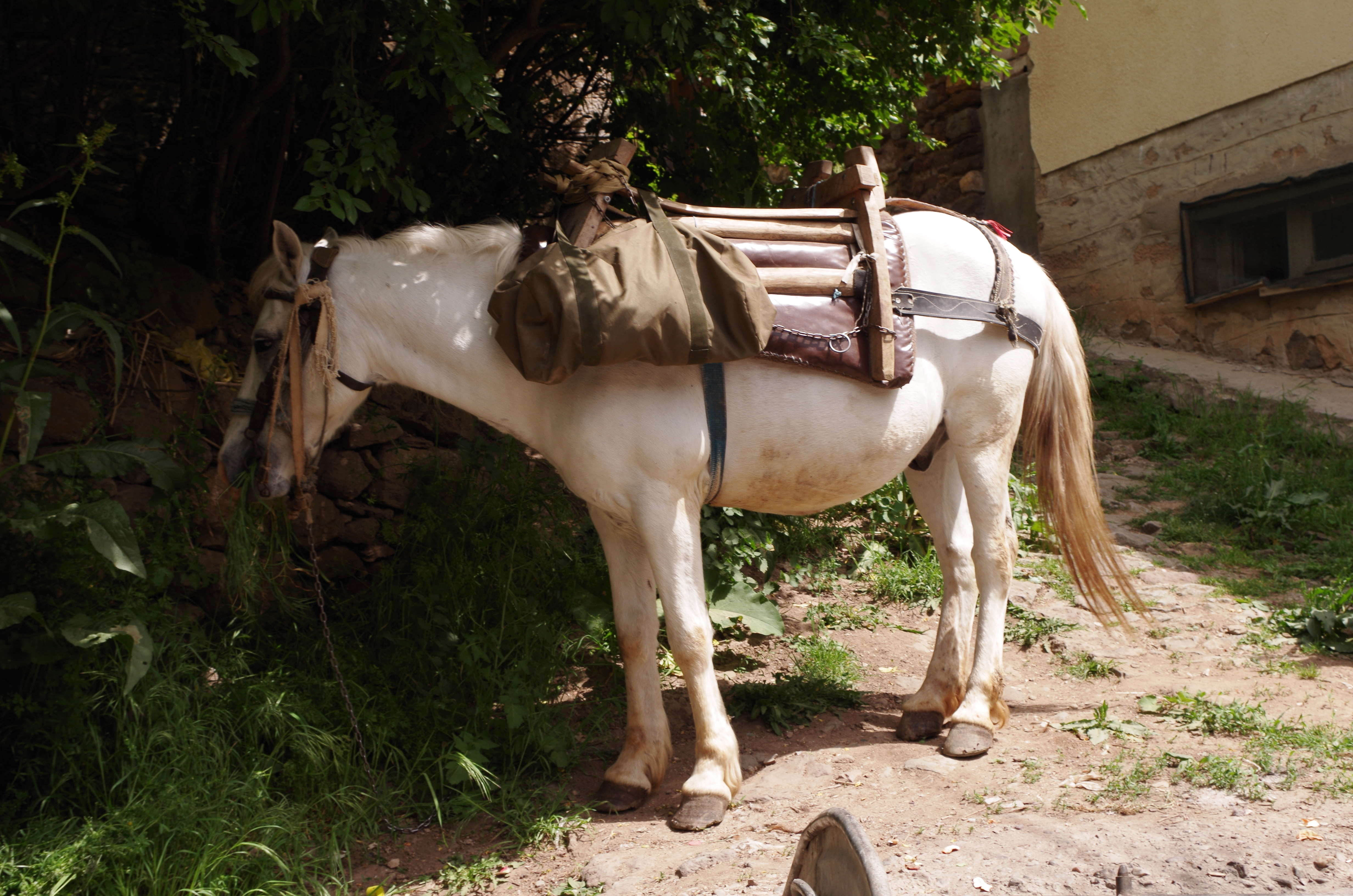 Horse in the town of Kratovo